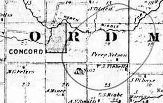 1874 map of the Dodge County, Minnesota showing the Perry Nelson House within Concord Township, Minnesota, USA. The circle mark was already on the original.